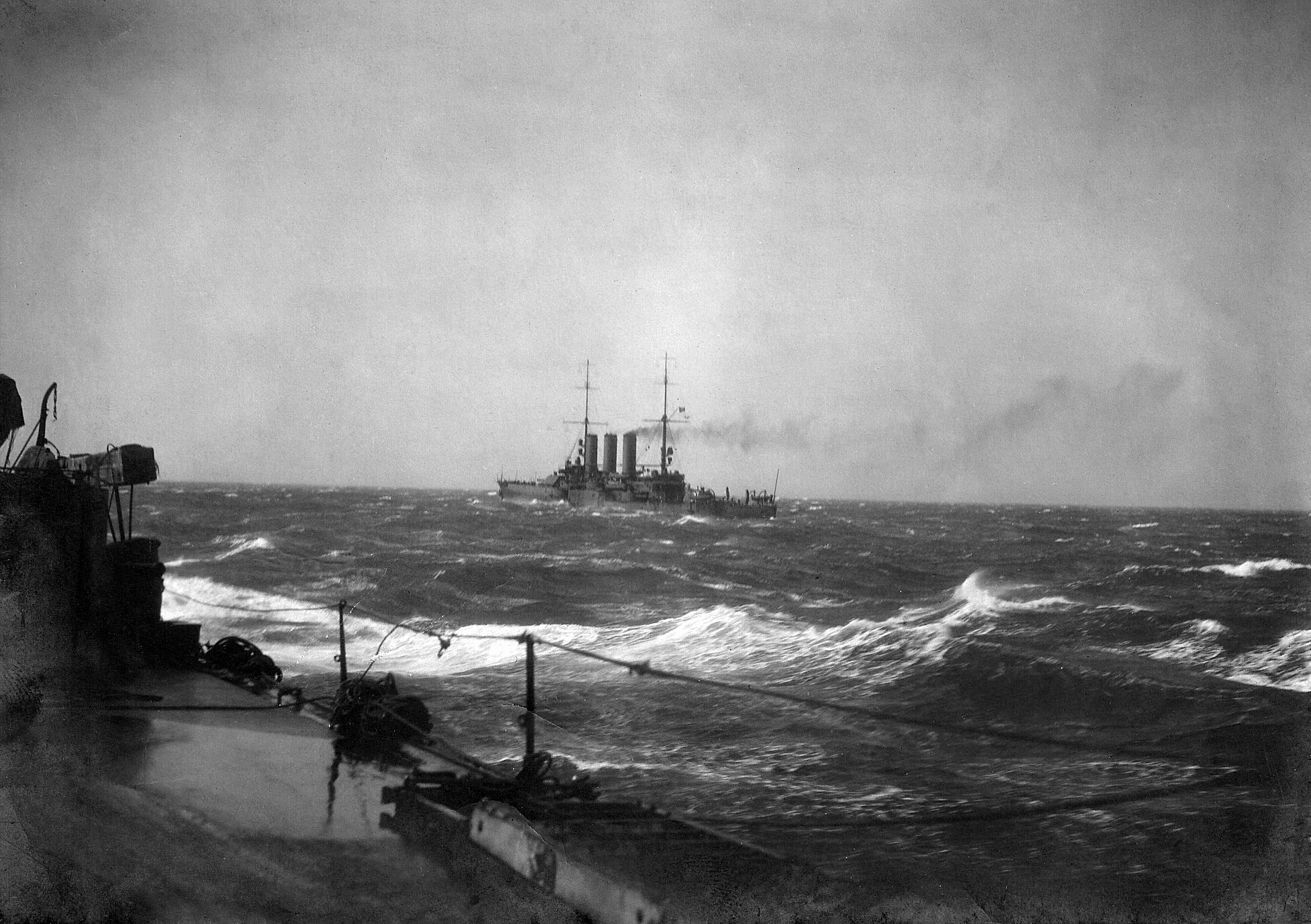 HM Italian ship "Libia", circa 1923. Image by Admiral Ernesto Burzagli (1873-1944). The original picture, scanned by Emiliano Burzagli, belongs to the Private archive of Burzaghi family, Italy. *